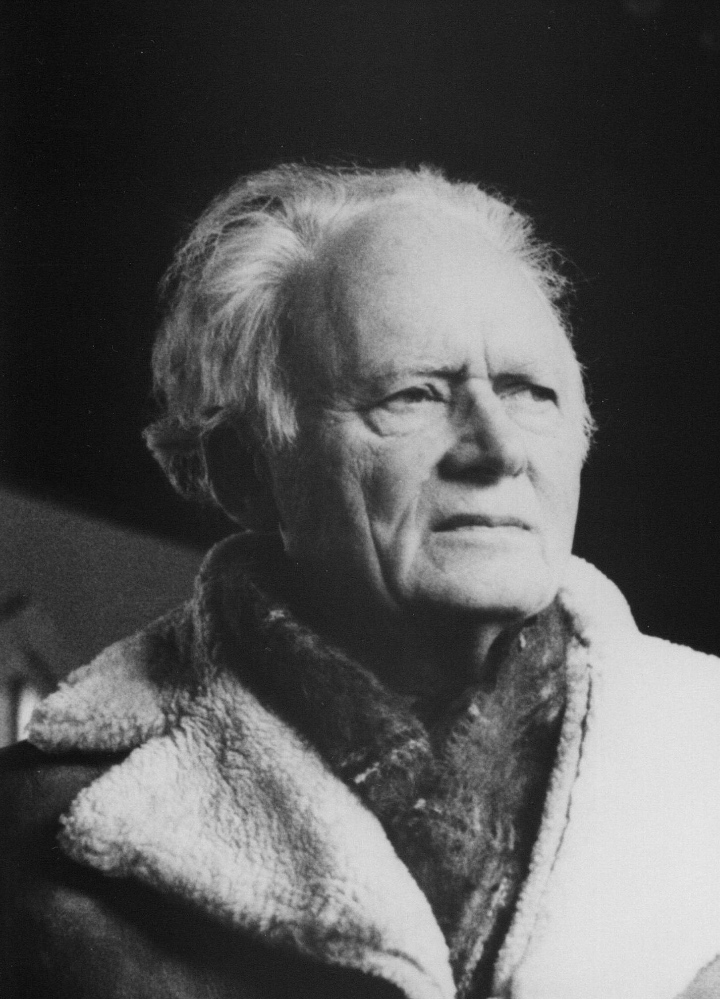 Photograph pf Irving Adler at age 75